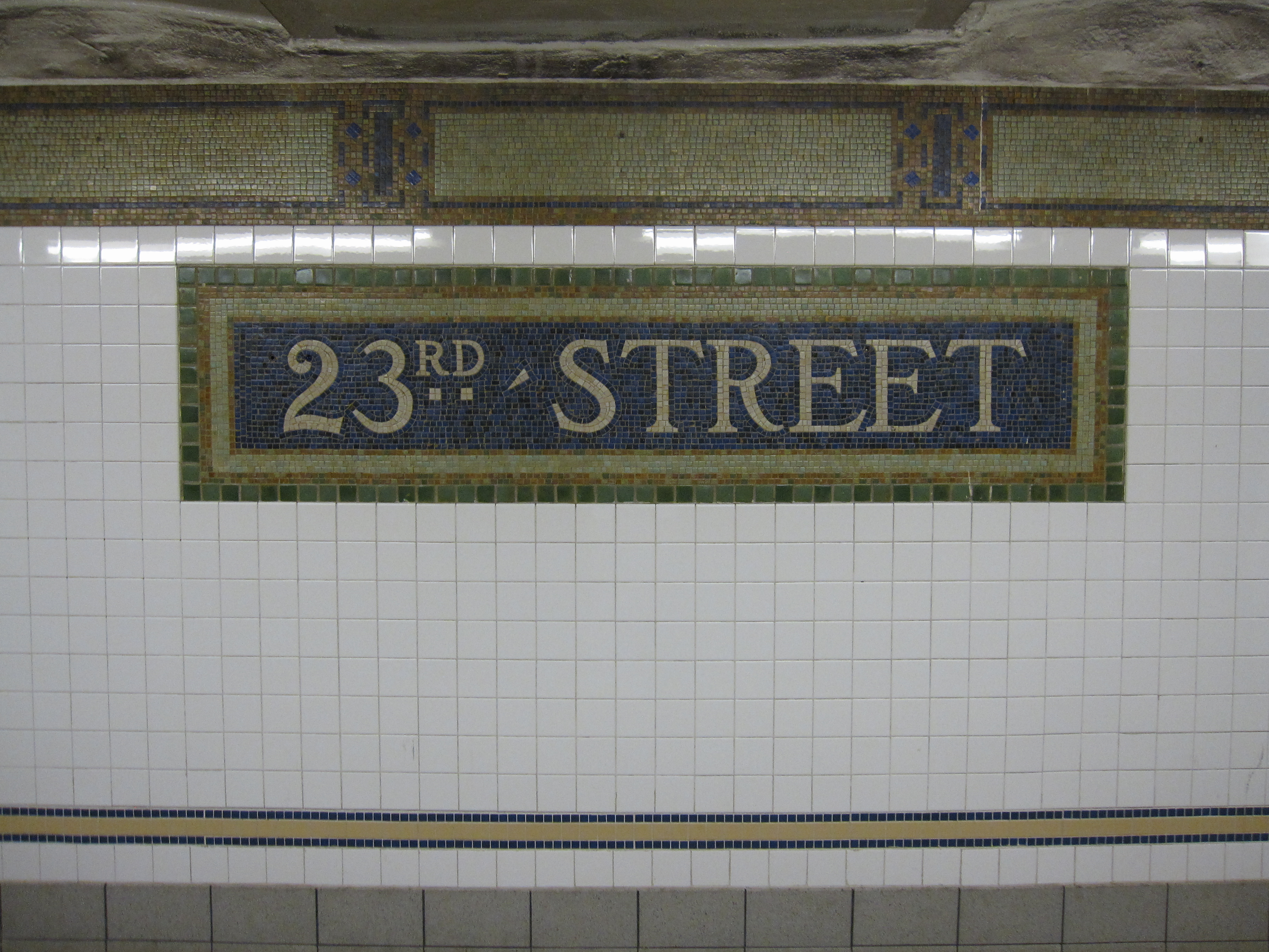 23rd Street (BMT Broadway Line)